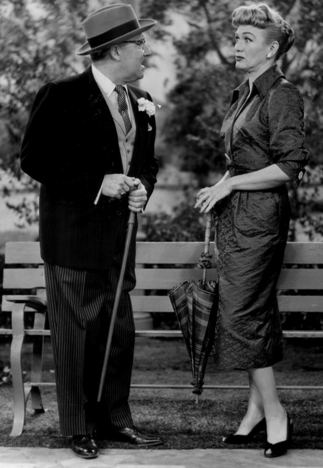 Publicity photo from Our Miss Brooks. Pictured are Mr. Conklin (Gale Gordon) and Connie Brooks (Eve Arden). The episode deals with Conklin's receiving a message to meet an old college flame in the park; instead he finds Miss Brooks.